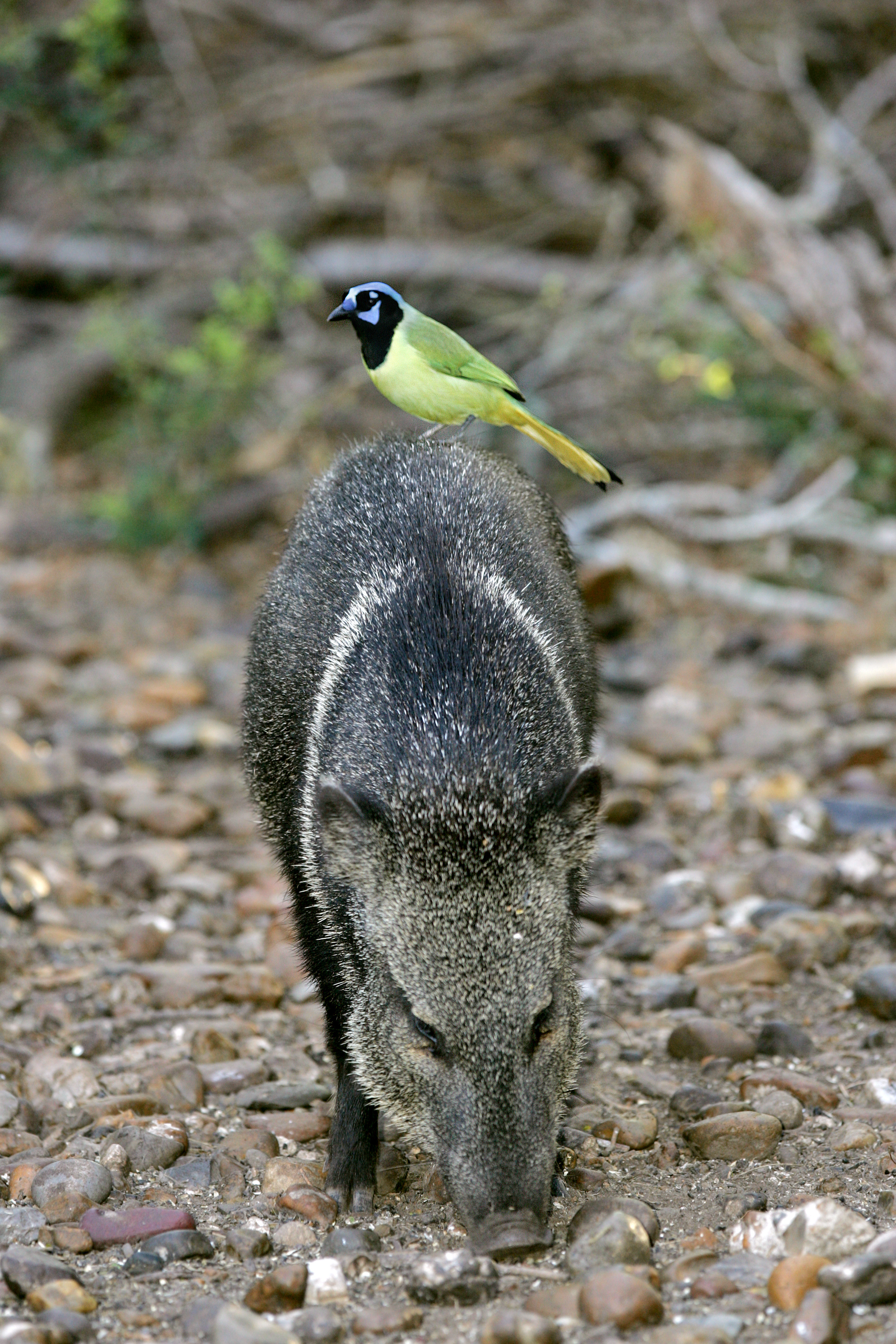 Green Jay Cyanocorax luxuosus on a Collared Peccary Pecari tajacu